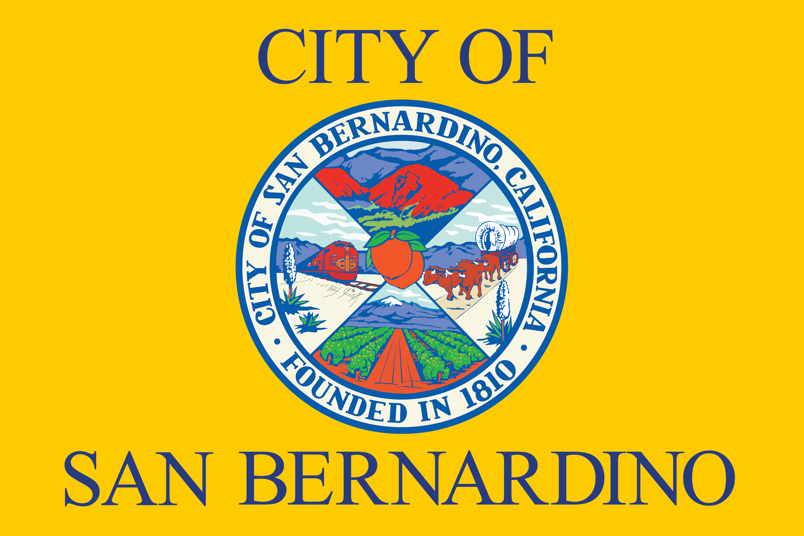 Flag of San Bernardino, California